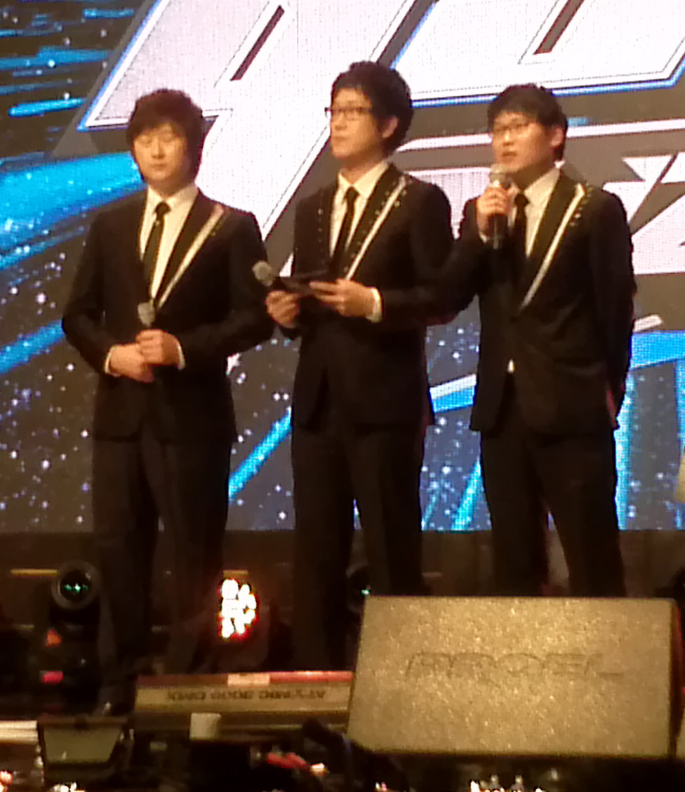 GSL Korean Commentator, (from left) Ahn jun yeong, Park sang hyeon, Che jeong won.